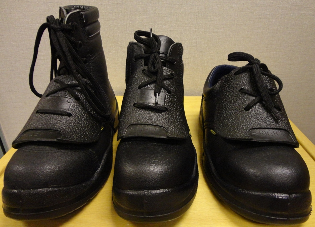 Nitti safety footwear with removable metatarsal guards.